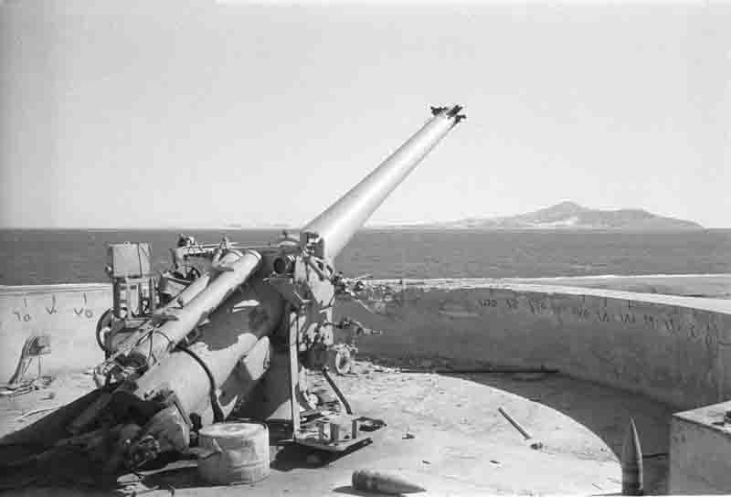 An Egyptian beach gun at Ra's Nasrani during the Suez crisis